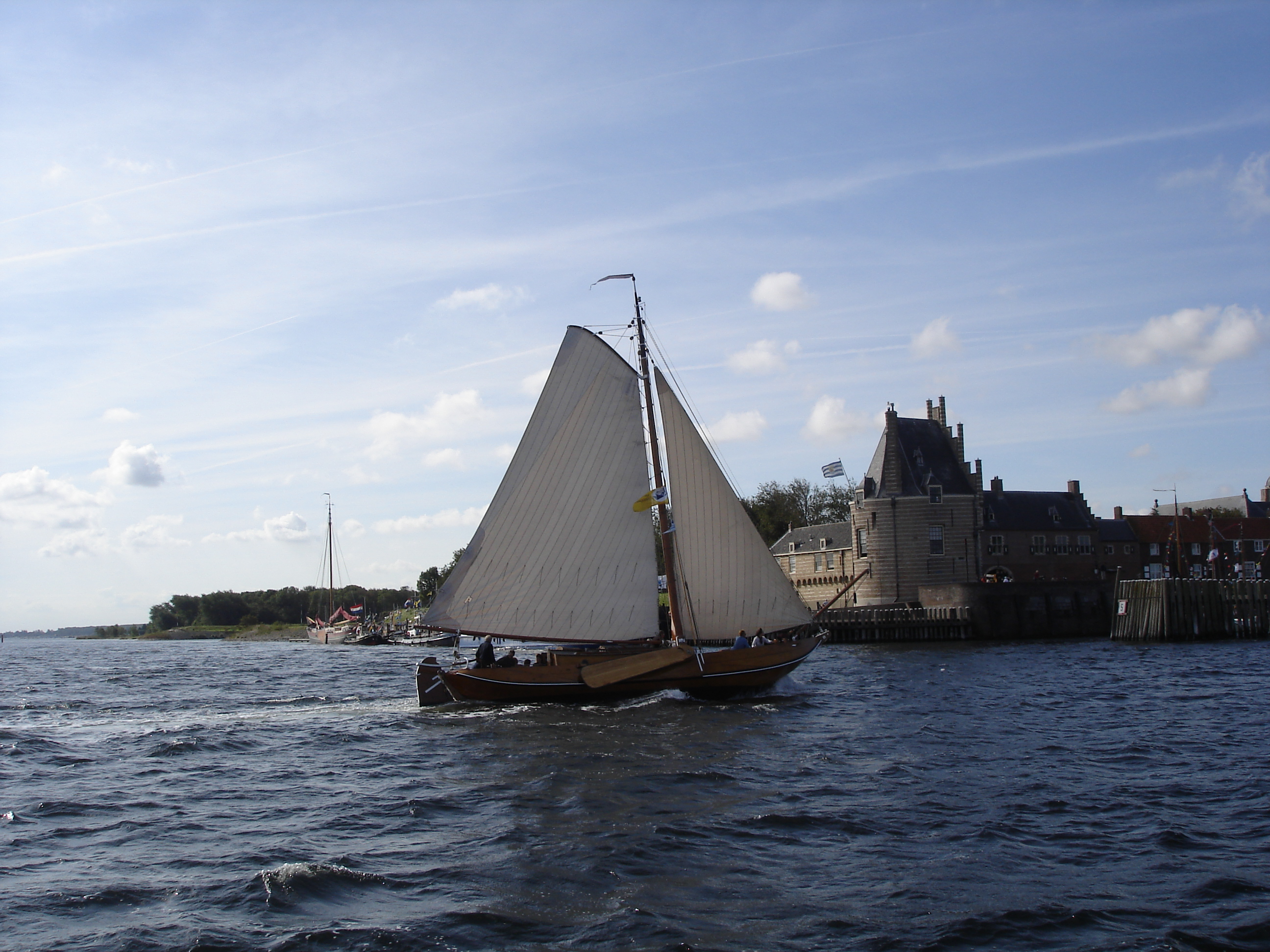 Campveerse tower, Veere, the Netherlands